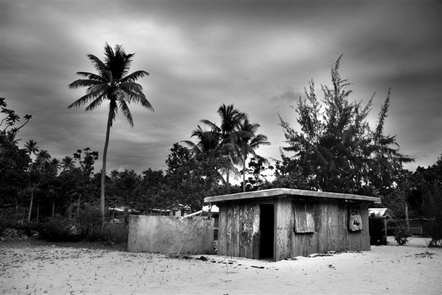 A church on the Pele Island in Vanuatu. Original structure was destroyed in a cyclone.